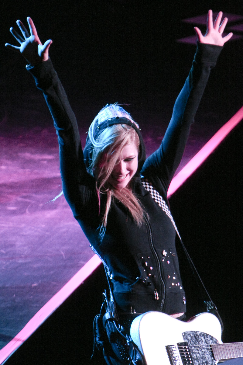 Avril Lavigne during a performance at the Beijing Wukesong Arena, The Best Damn Thing Tour. Both of her hands are raised.